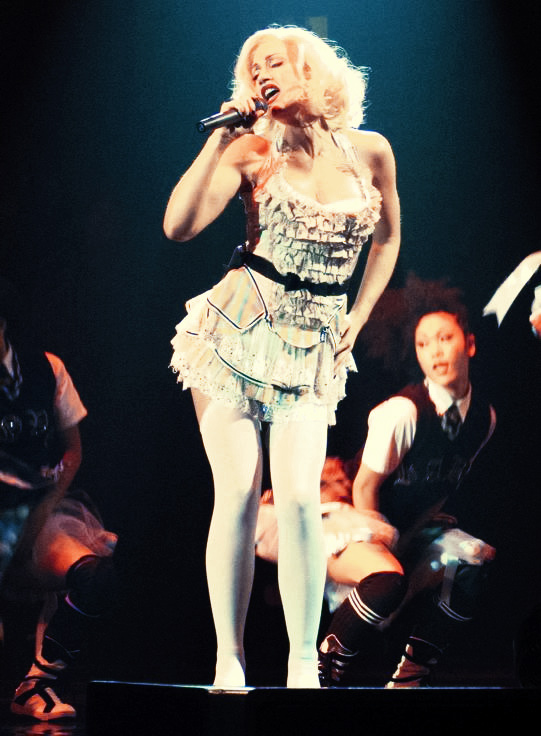 Gwen Stefani performing "What You Waiting For?" in Duluth, Georgia, United Stateslookin so distinctive